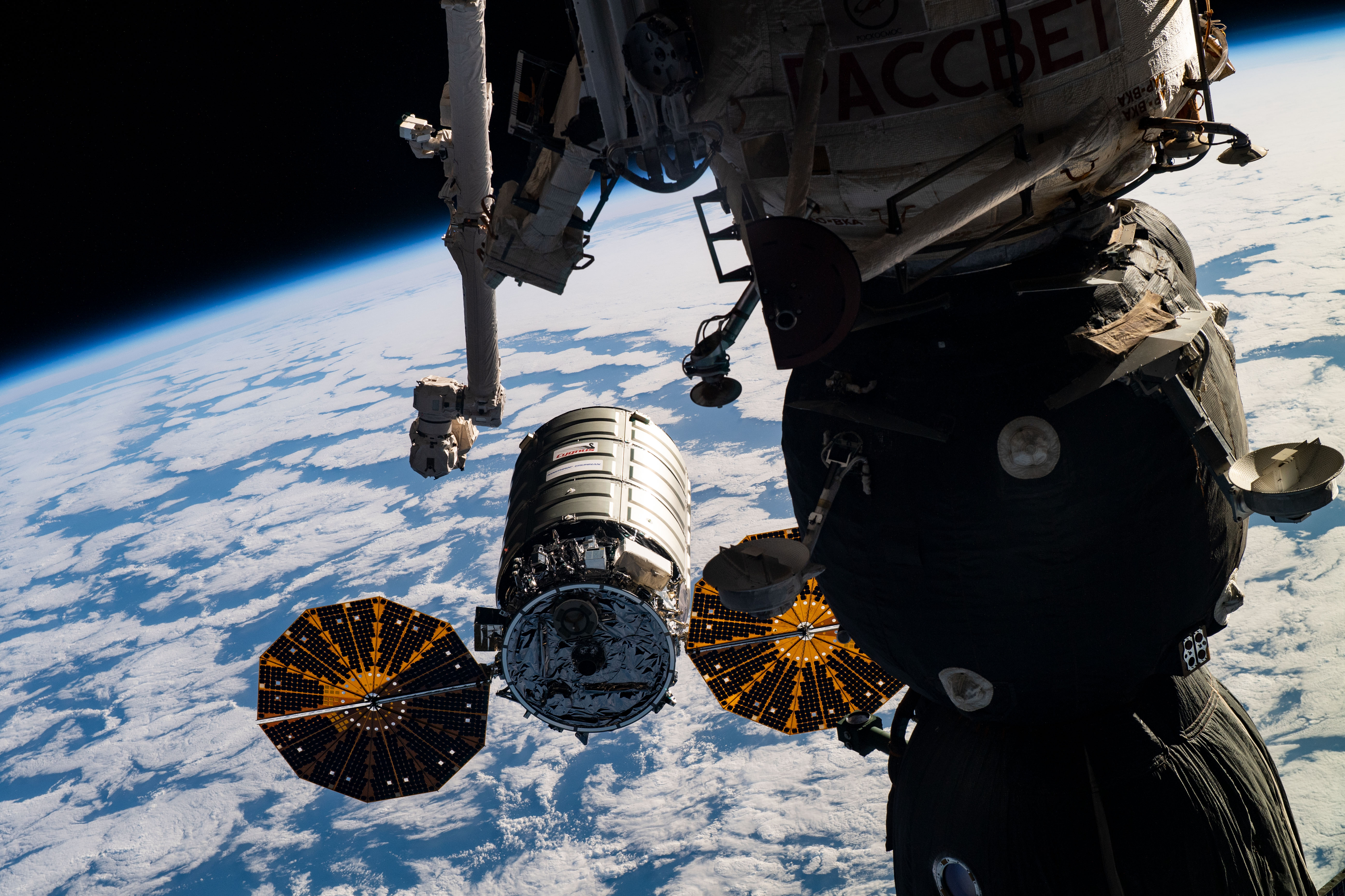 The Canadarm2 robotic arm is positioned to grapple the Northrop Grumman Cygnus cargo craft as it approaches its capture point with the International Space Station orbiting 255 miles above the Atlantic Ocean. Highlighting the foreground is the Soyuz MS-12 crew ship docked to the Rassvet module.